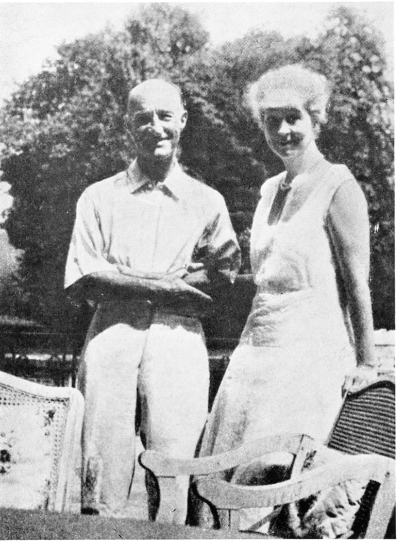 Jacques & Consuelo at their residence of St Georges Motel, in Normandy, between 1930 and 1940